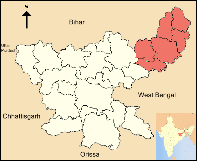 A locator map of Santhal Pargana division, Jharkhand state